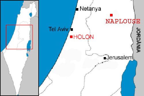 Localization of the two samaritan communities : Holon in Israel, and Nablus in the west bank.